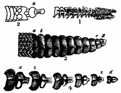 Diagram of the components of the rattle of a rattlesnake from 1911 Encyclopædia Britannica.